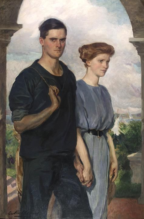 Henry Sandwith Drinker, Jr. (1880–1965) and Sophie Lewis Hutchinson Drinker (1888–1967), married 16 June 1911, painted by Cecilia Beaux.Sophie is considered a founder of women's musicological and gender studies, which she spent a great deal of her life researching and writing about. The Drinker family was well known for their invitation-only singing parties, and in 1930, Sophie joined the ‘‘Montgomery Singers.” She and other members of the Drinker family are buried in the Summit Section of West Laurel Hill Cemetery in Bala Cynwydd, Pennsylvania.